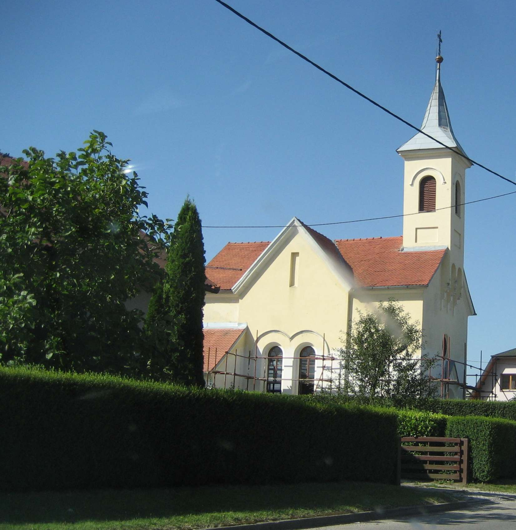 Ivanic Grad